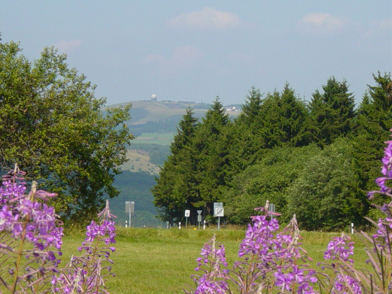 Rhön mountains in Germany, view to the highest hill Wasserkuppe